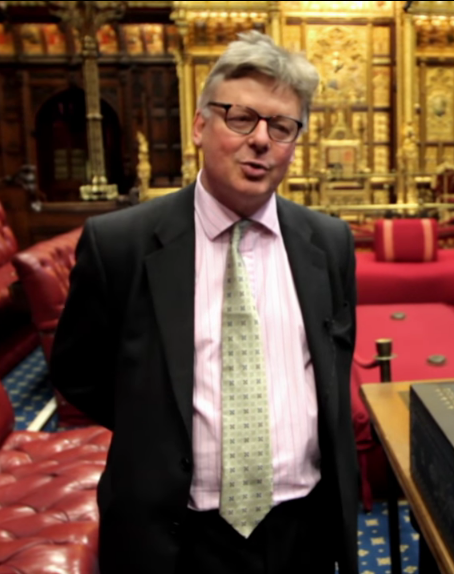 The Right Honourable William Richard Fletcher-Vane, Baron Inglewood, Deputy Lieutenant of Cumbria, giving a video tour of the Chamber of the House of Lords.